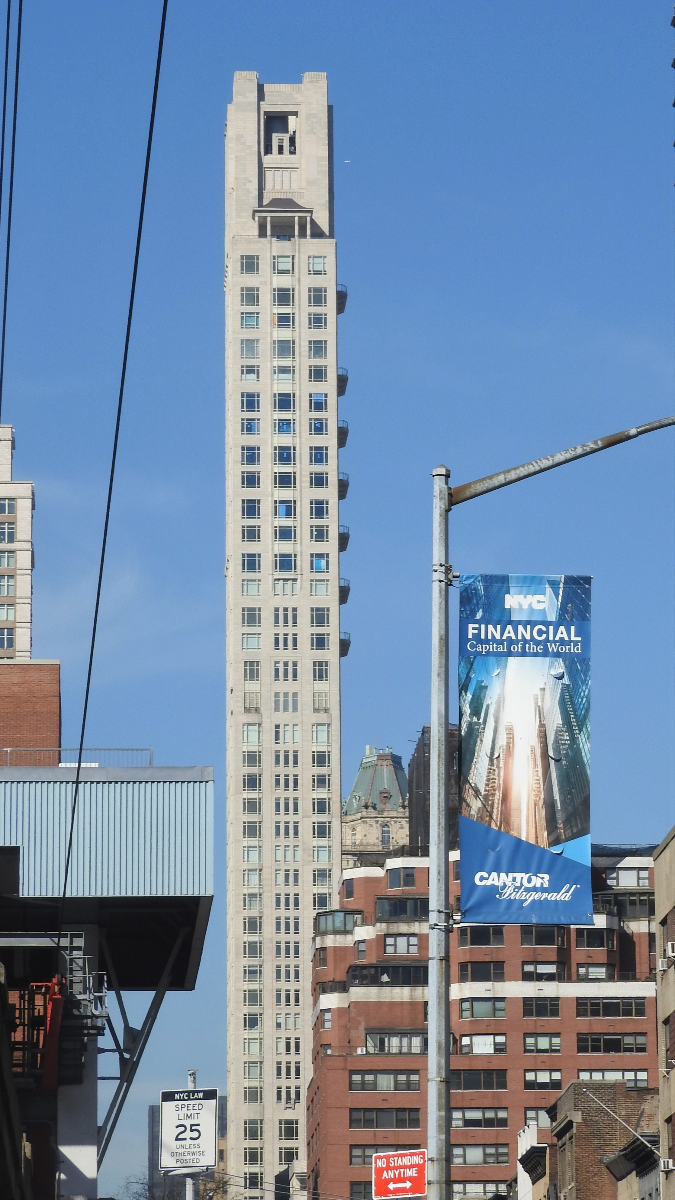 Looking west from QBB bike ramp at 520 Park Avenue on a sunny morning